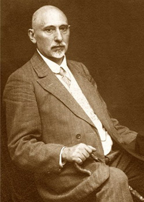 Georgian historian Ekvtime Takaishvili